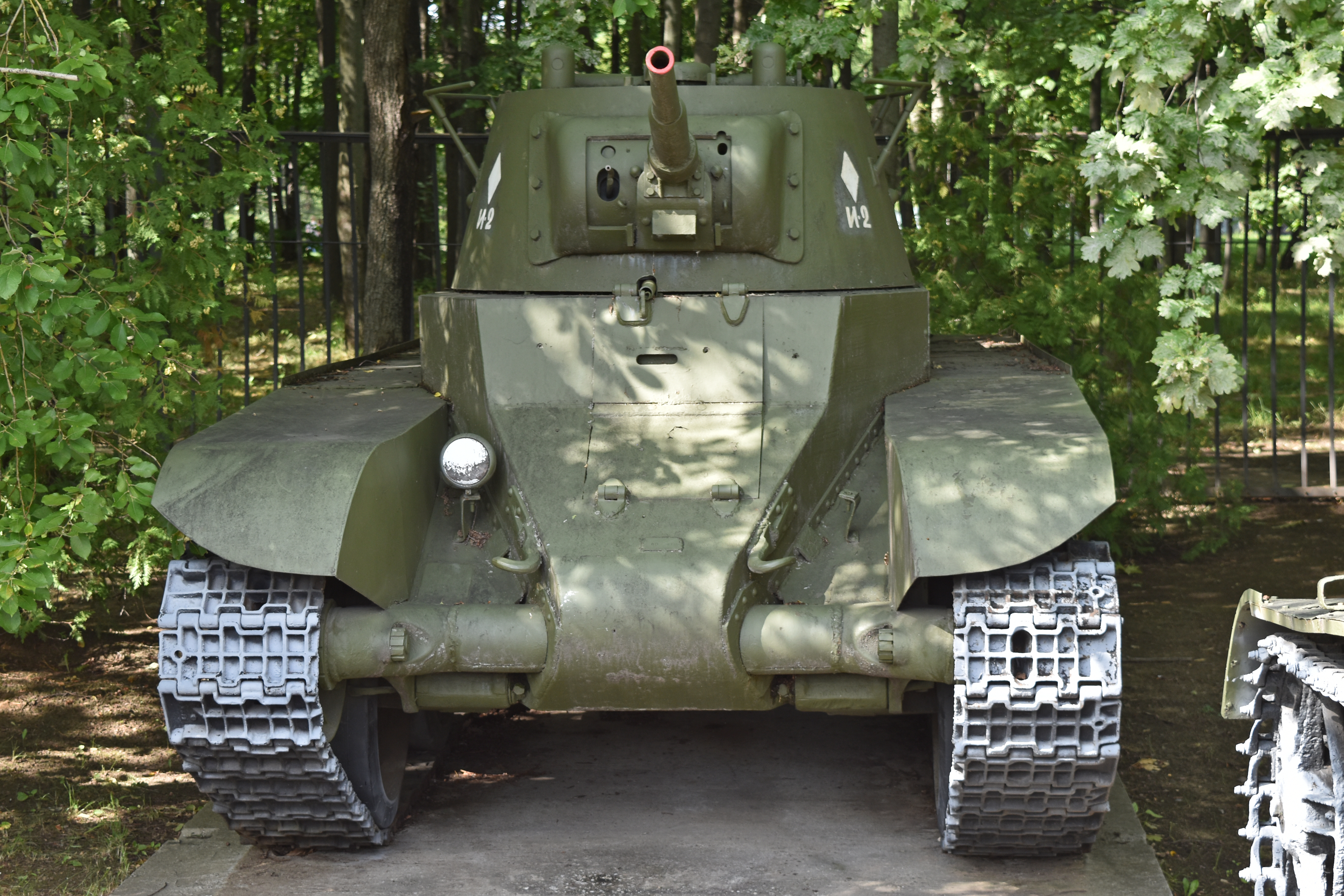 Soviet WW2 era Light Cavalry Tank Manufacturer:- Kharkov Komintern Locomotive Plant (KhPZ) Built:- 1935 to 1940 Total Production:- 4,965 Main Armament:- 45mm L/46 gun The model 1937 had wider tracks and a conical turret, compared to the previous model 1935. The BT-7 was the main Soviet battle tank during the summer of 1941 and remained in frontline use until the end of the war. On display in ‘Victory Park’, Museum of the Great Patriotic War, Poklonnaya Hill, Moscow, Russia. 26th August 2017